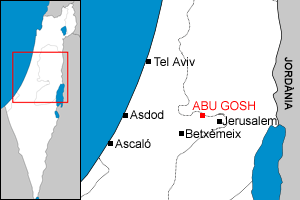 Localization of Abu Gosh within Israel.